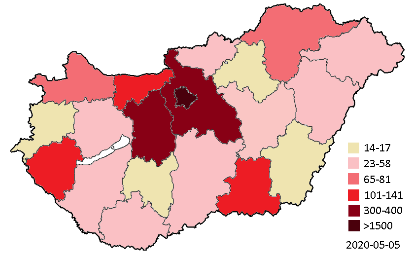 COVID-19 HUN May. 5